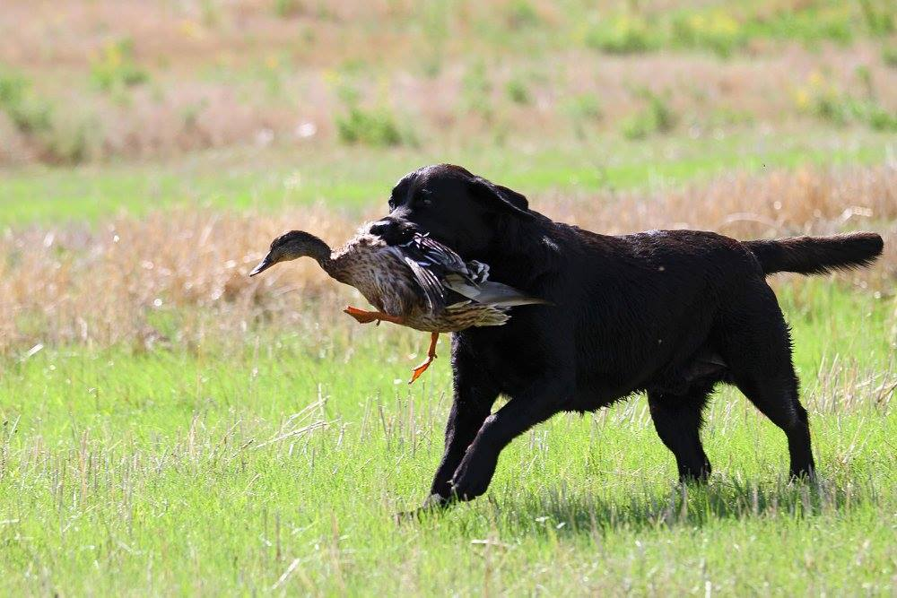 Working labrador retriever hunting duck